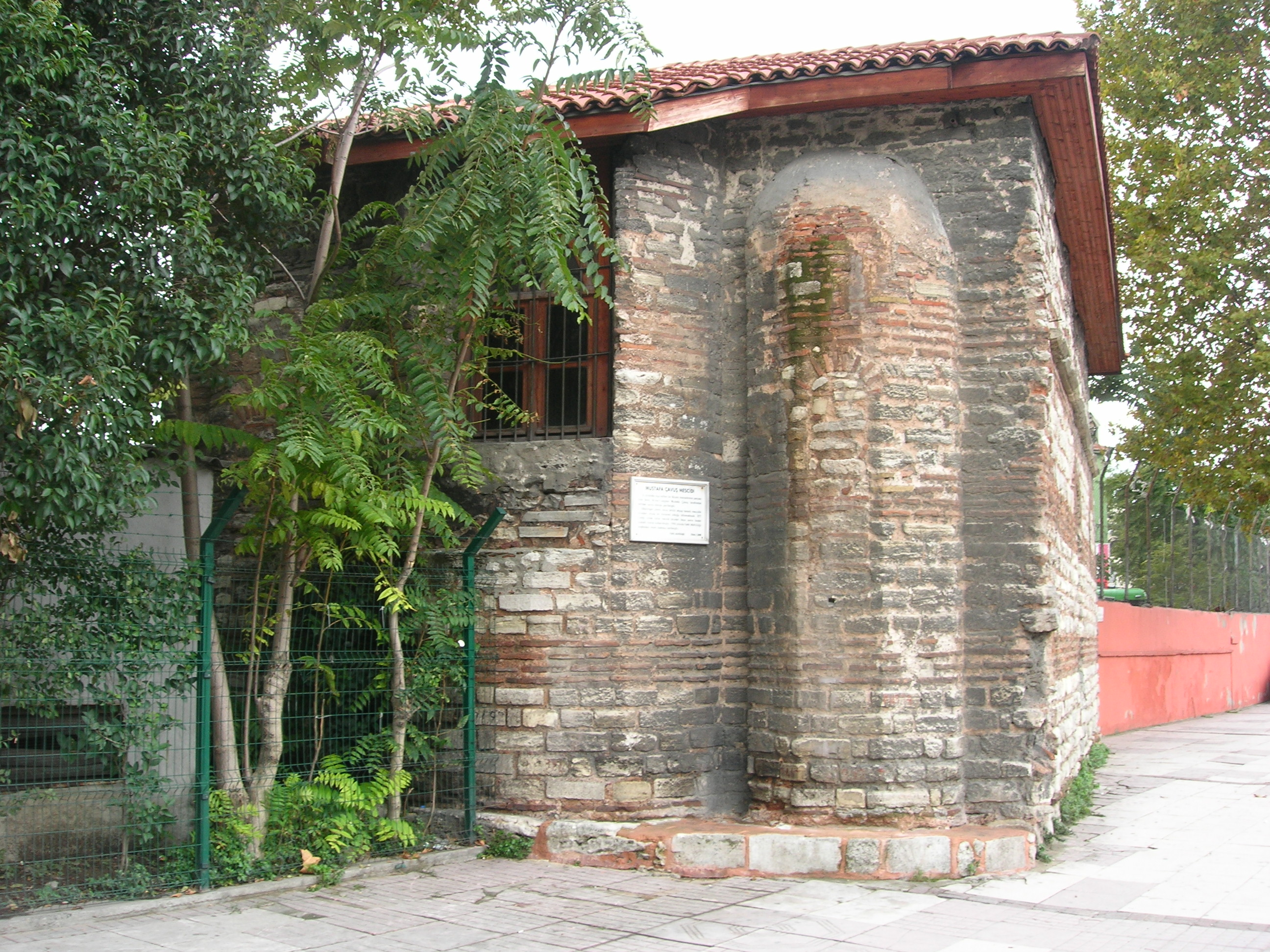 The apses of Manastir Mosque in Istanbul.